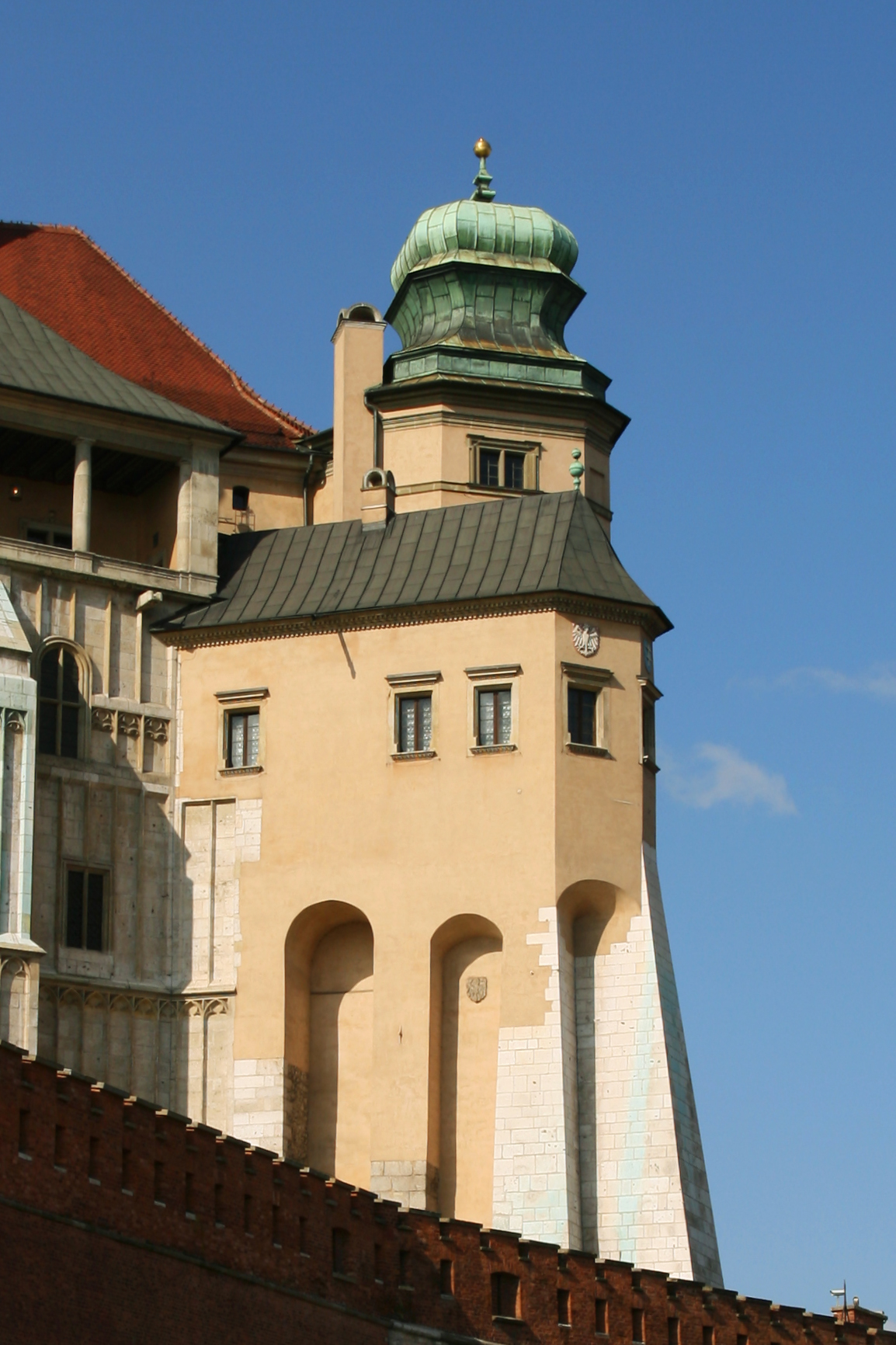 Kurza Noga Tower of Wawel in Kraków (Poland).